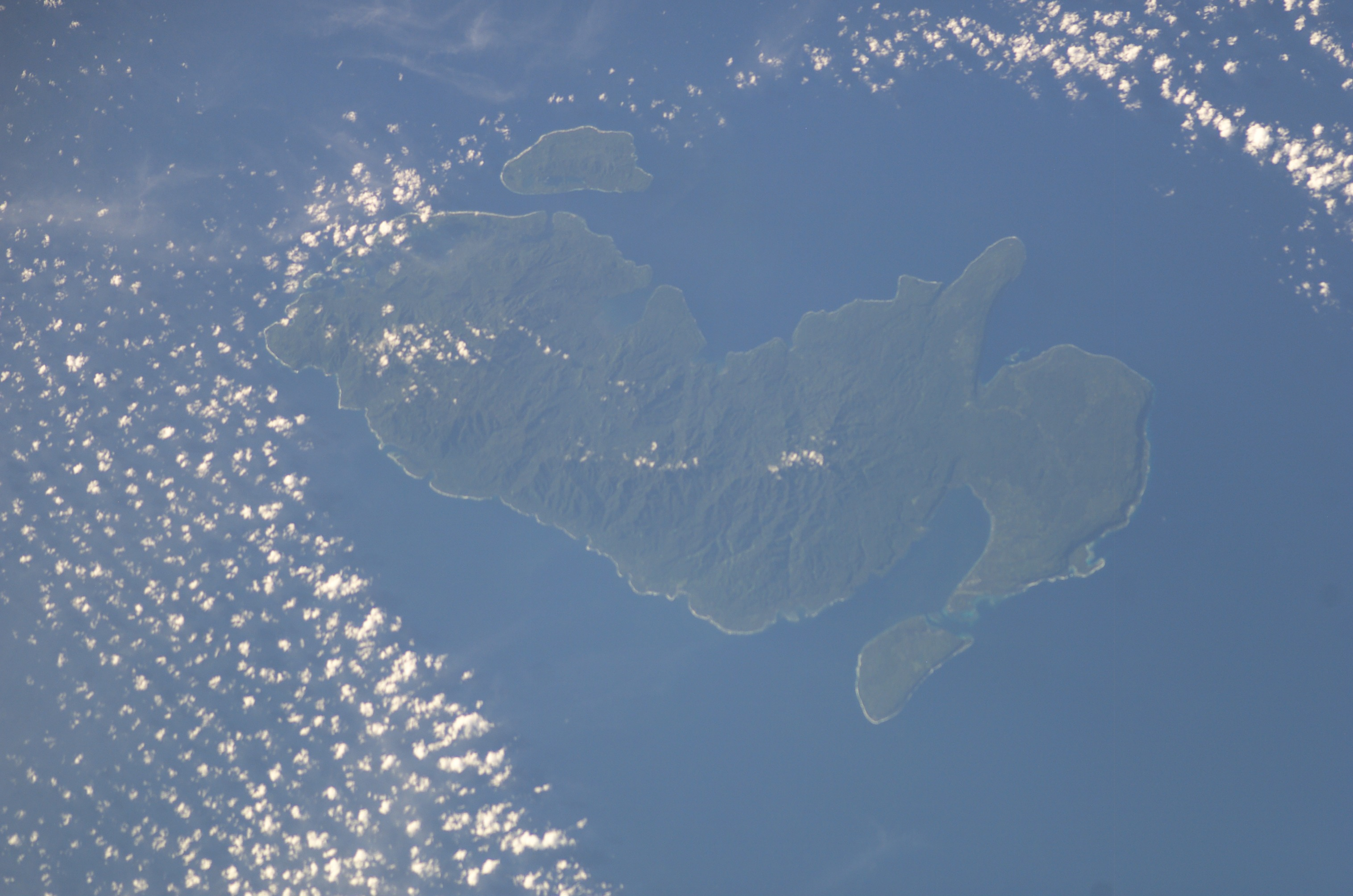 NASA astronaut image of Solomon Islands, Santa Cruz Islands, Ndeni in the Pacific Ocean